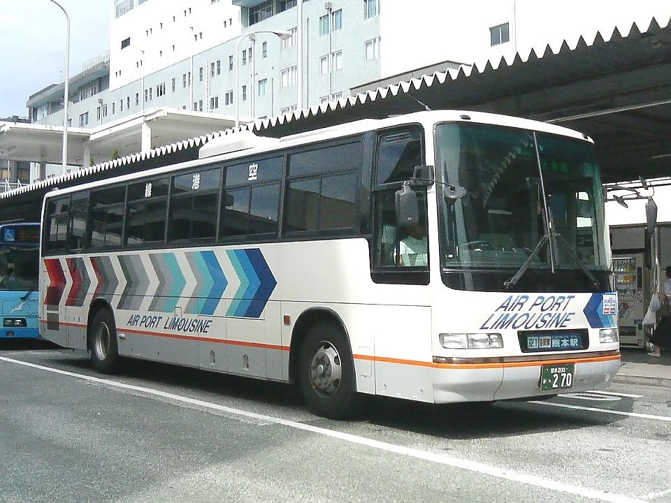 Kyushusanko bus. See below.